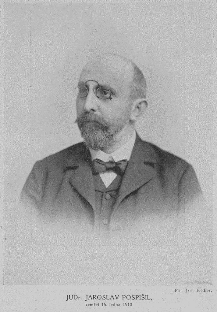 Portrait of Jaroslav Pospíšil (1862-1910), Czech lawyer, copyright expert and also a book publisher